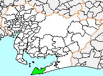 Modified by me from Wikipedia's file